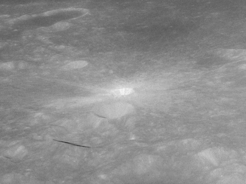 Highly oblique view of Censorinus, on the moon. Facing west. Brightness and contrast have been adjusted.